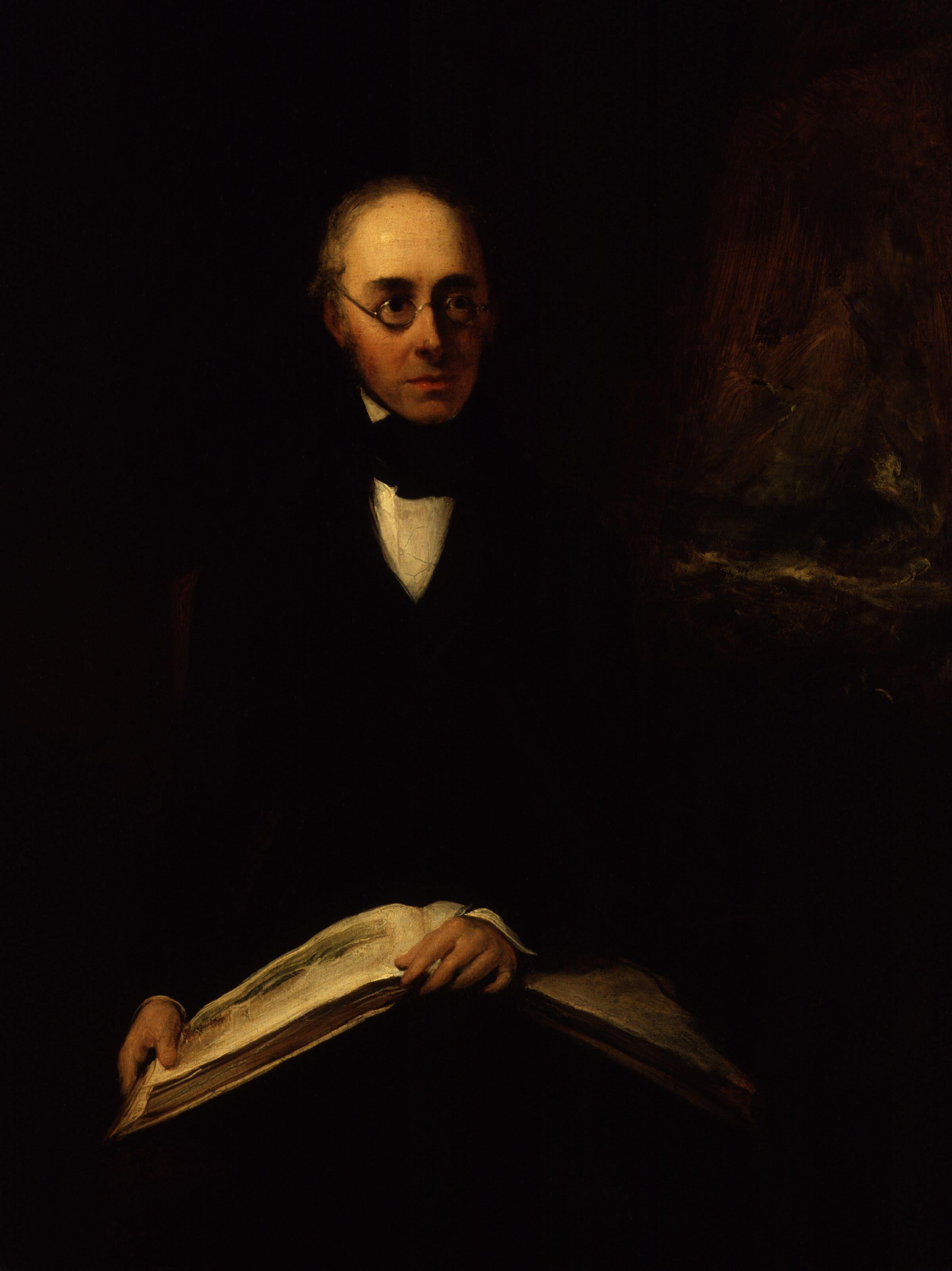 Antony Vandyke Copley Fielding, by Sir William Boxall (died 1879), given to the National Portrait Gallery, London in 1880. All images in this batch have been confirmed as author died before 1939 according to the official death date listed by the NPG.